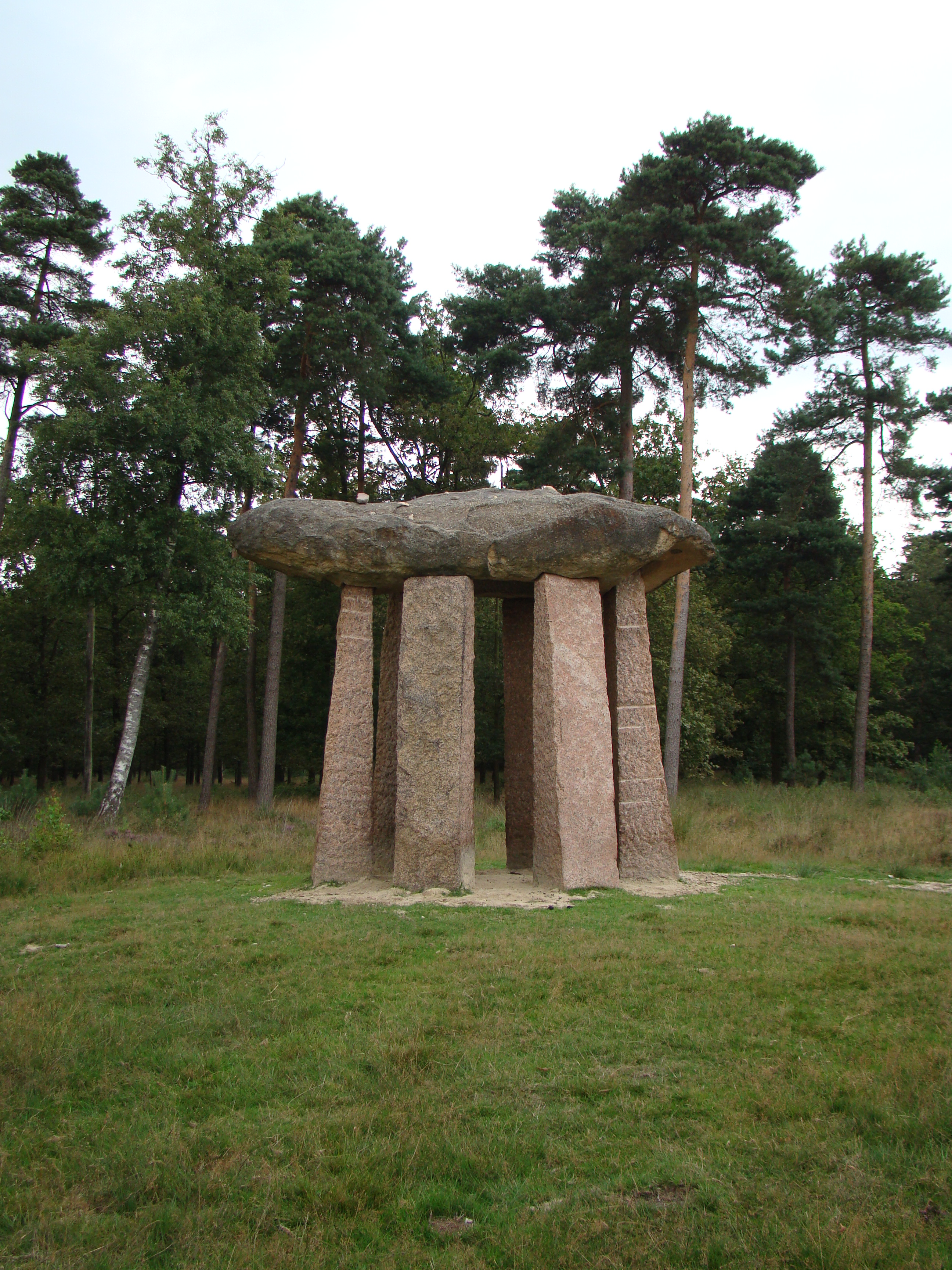 Artwork Ode aan de zon by Rob Schreefel in Odoorn (Netherlands)